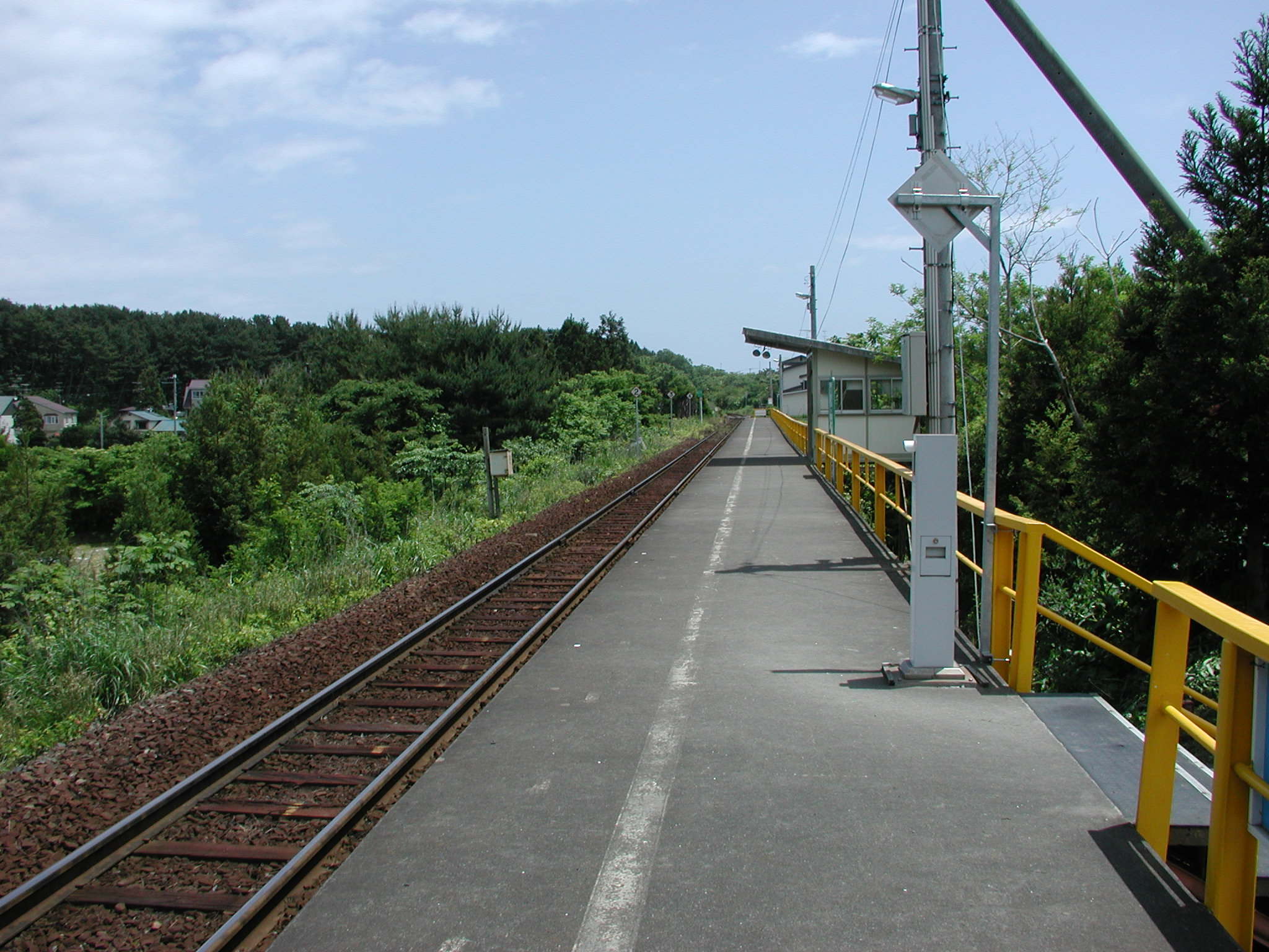 Mutsu-Shirahama Station in Home